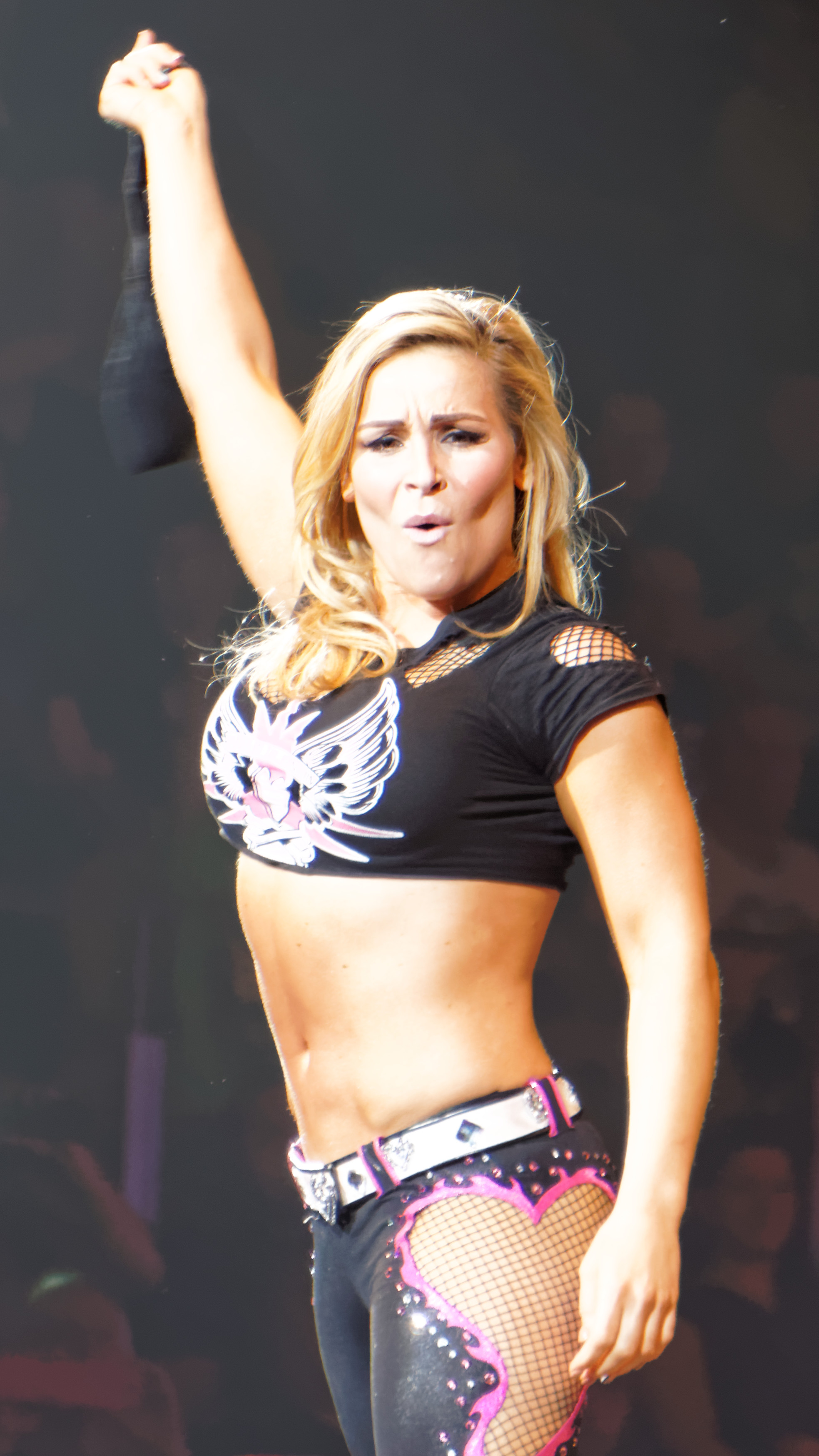 Natalya at a WWE show on May 22, 2014.